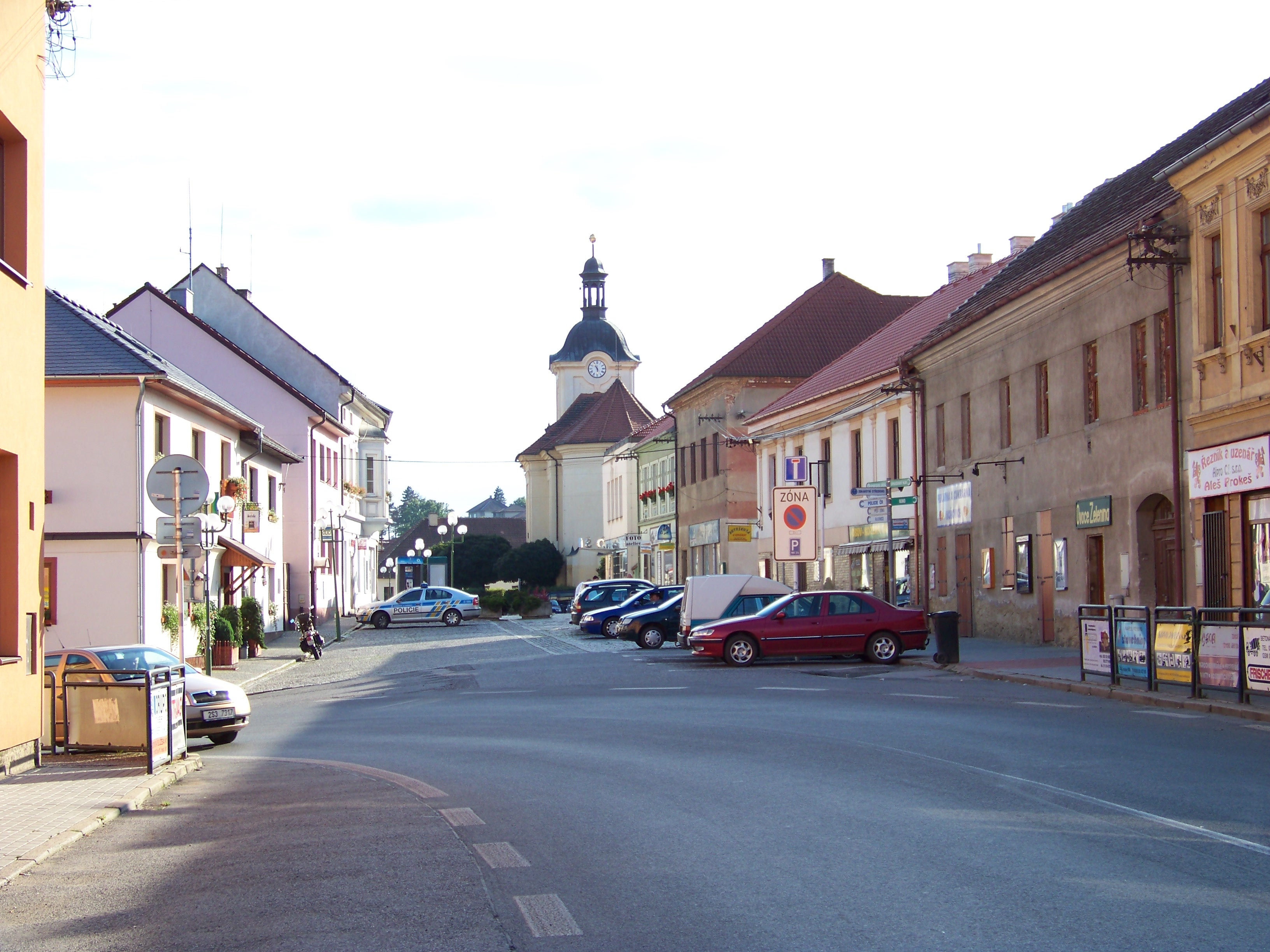 Zdice, Beroun District, Central Bohemian Region, the Czech Republic. Husova street. - Google Maps - Google Earth